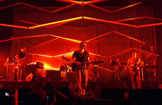 Roseland Ballroom